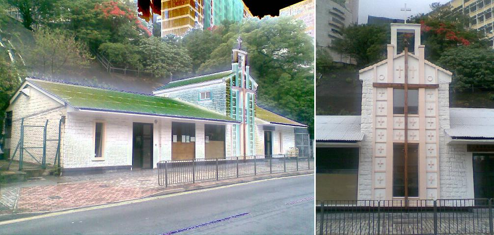 中文（香港）: 聖公會聖路加堂牧民中心, 堅尼地城, 香港 S. K. H. St. Luke's Settlement Neighborhood Elderly Center, No. 47 Victoria Road, Kennedy Town, Hong Kong